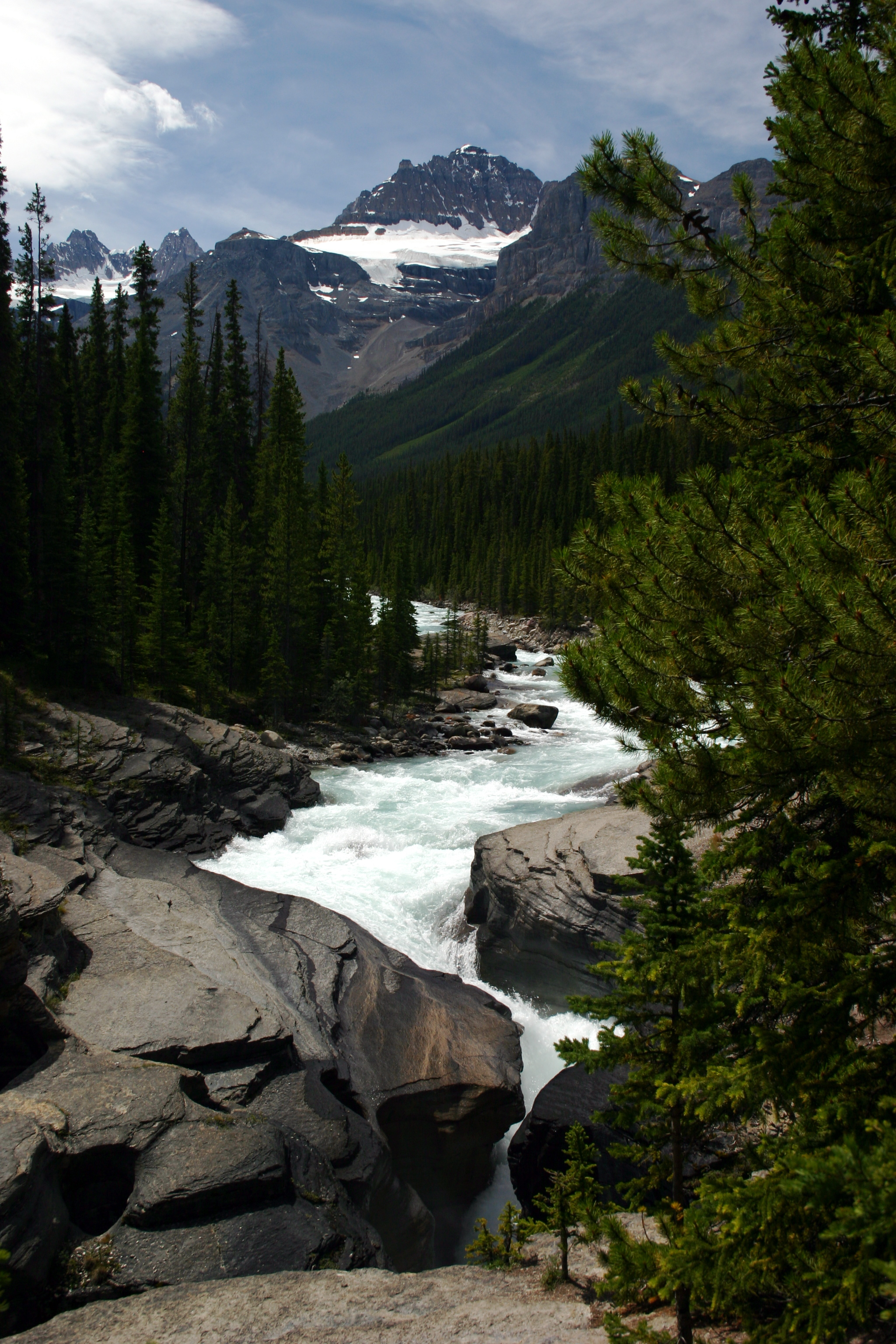 It shows Mistaya canyon in Banff National Park.